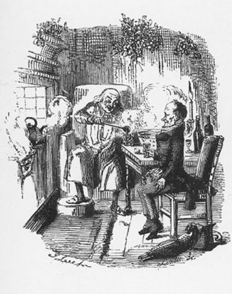 A Christmas Carol, Scrooge and Bob Cratchit by John Leech, 1843, Wood engraving